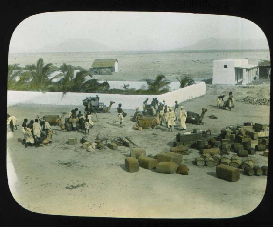 Crowd of people preparing for start of the expedition. 1896. Name of Expedition: Africa Expedition Participants: D.G. Elliot and Carl Akeley Expedition Date: 1896 Purpose or Aims: Zoology Mammals Location: Africa, Somalia, Woqooyi Galbeed, Berbera Original material: Hand-colored glass lantern slide Digital Identifier: CSZ5998_LS Learn more about The Field Museum's Library Photo Archives.